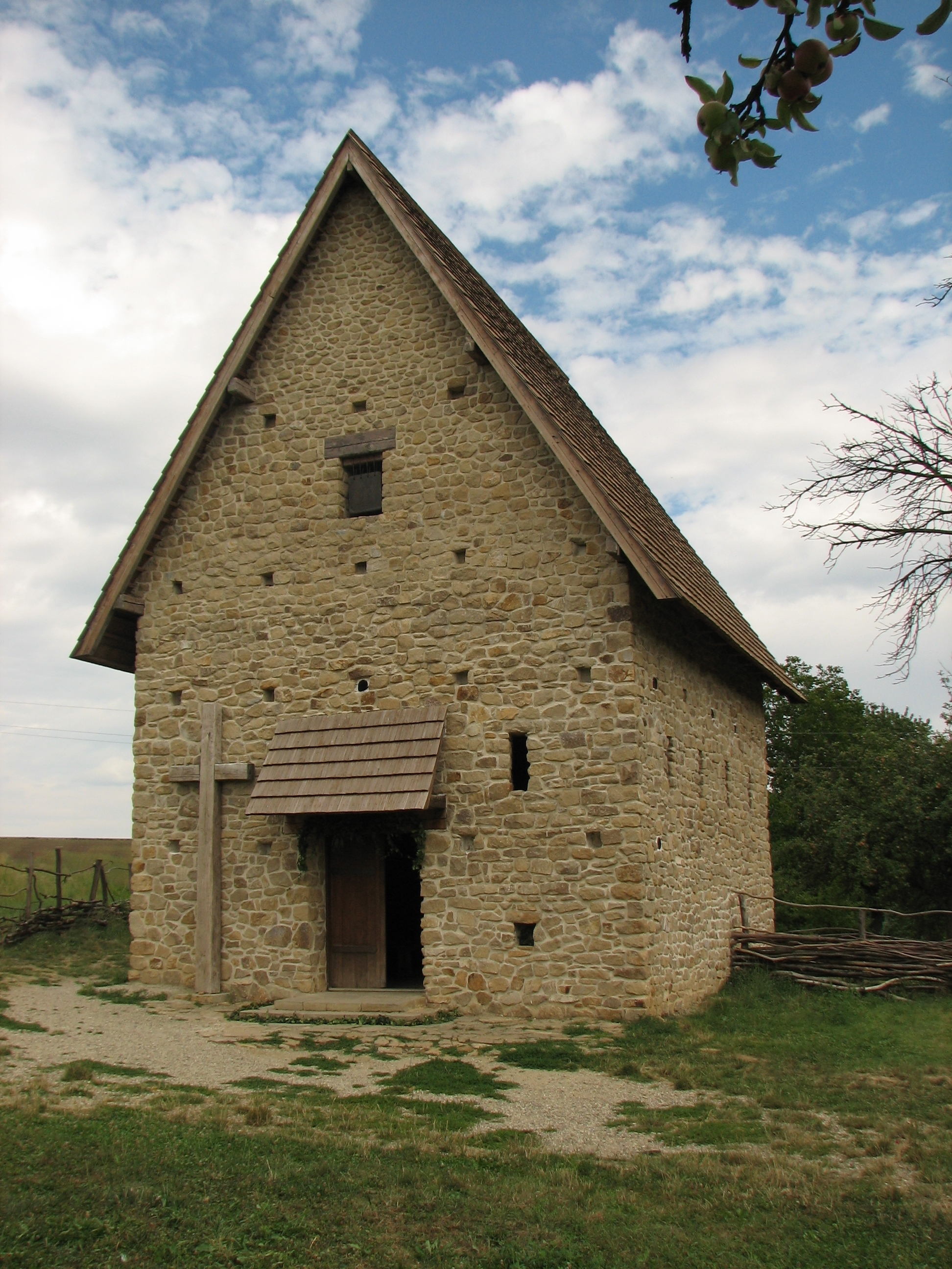 Archaeological outdoor museum in Modrá, Czech Republic - a church